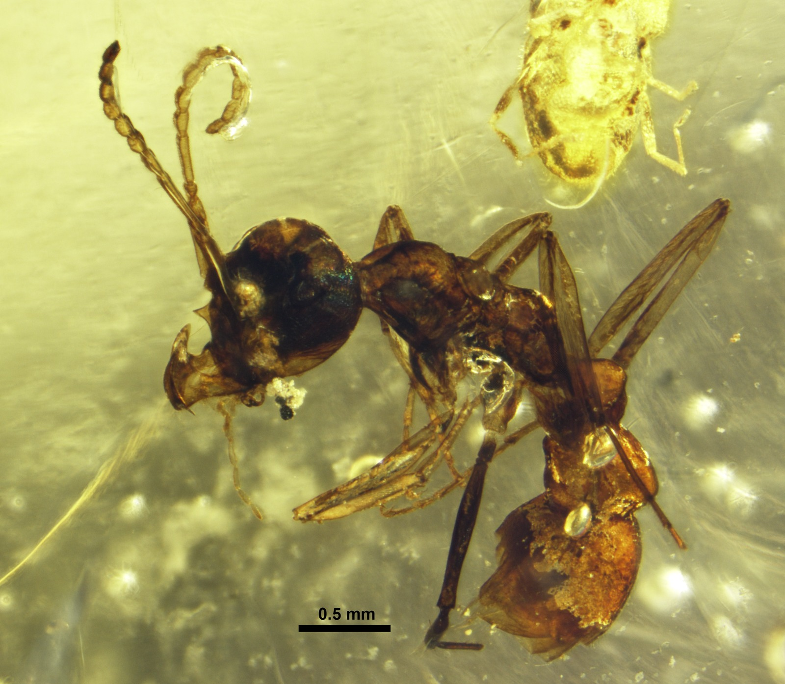 Right profile view of the Protoceratomyrmex revelatus holotype. Burmese amber, Earliest Cenomanian; Noije Bum Village, near Myitkyina, Kachin State, Myanmar Nanjing Institute of Geology and Palaeontology specimen NIGP172002 Ant web specimen FANTWEB00026